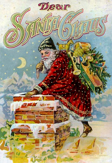 Cover art for Dear Santa Claus by various authors. Published by W. B. Conkey Company, 1901